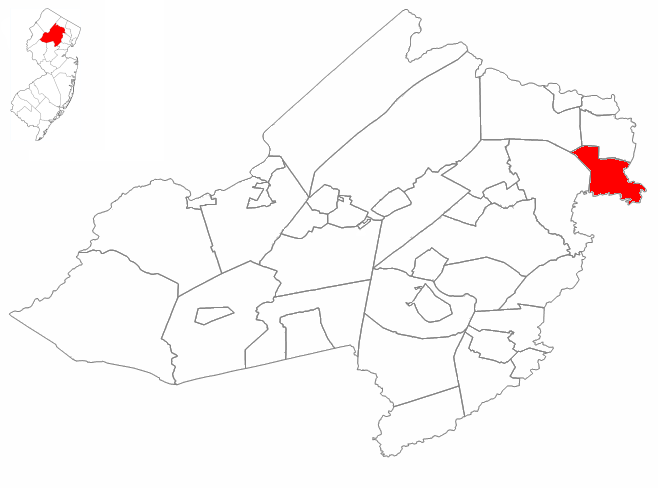 Position of Lincoln Park (highlighted in red) in Morris County. Morris County's position in New Jersey is in turn highlighted in red.